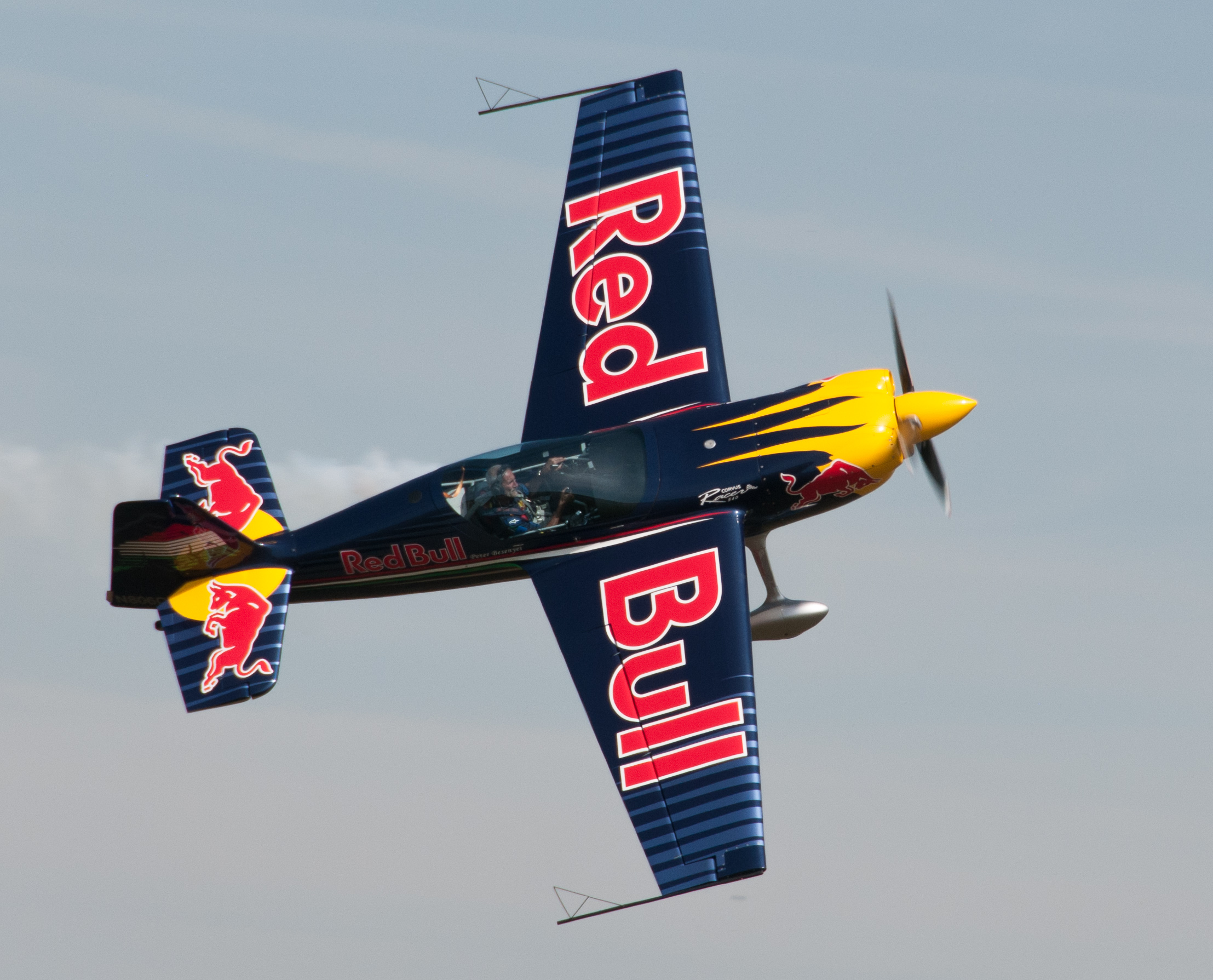 Aerobatic aircraft Corvus Racer 540 made by Corvus Aircraft Ltd. for Péter Besenyei. Picture taken on 9th September, 2012 at CIAF 2012, Hradec Králové, Czech Republic